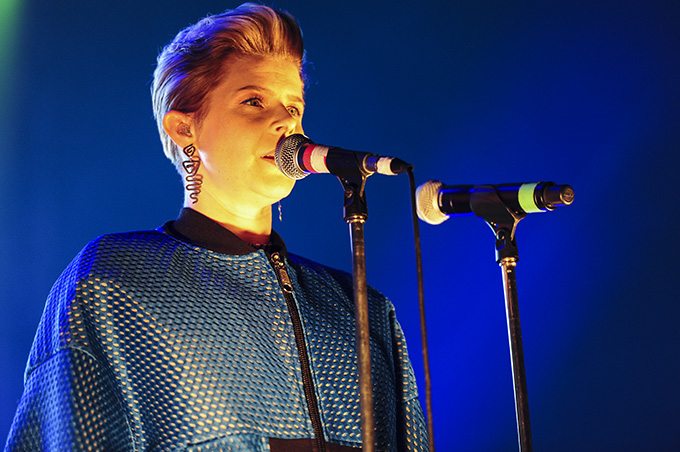 Parklife Festival 2012